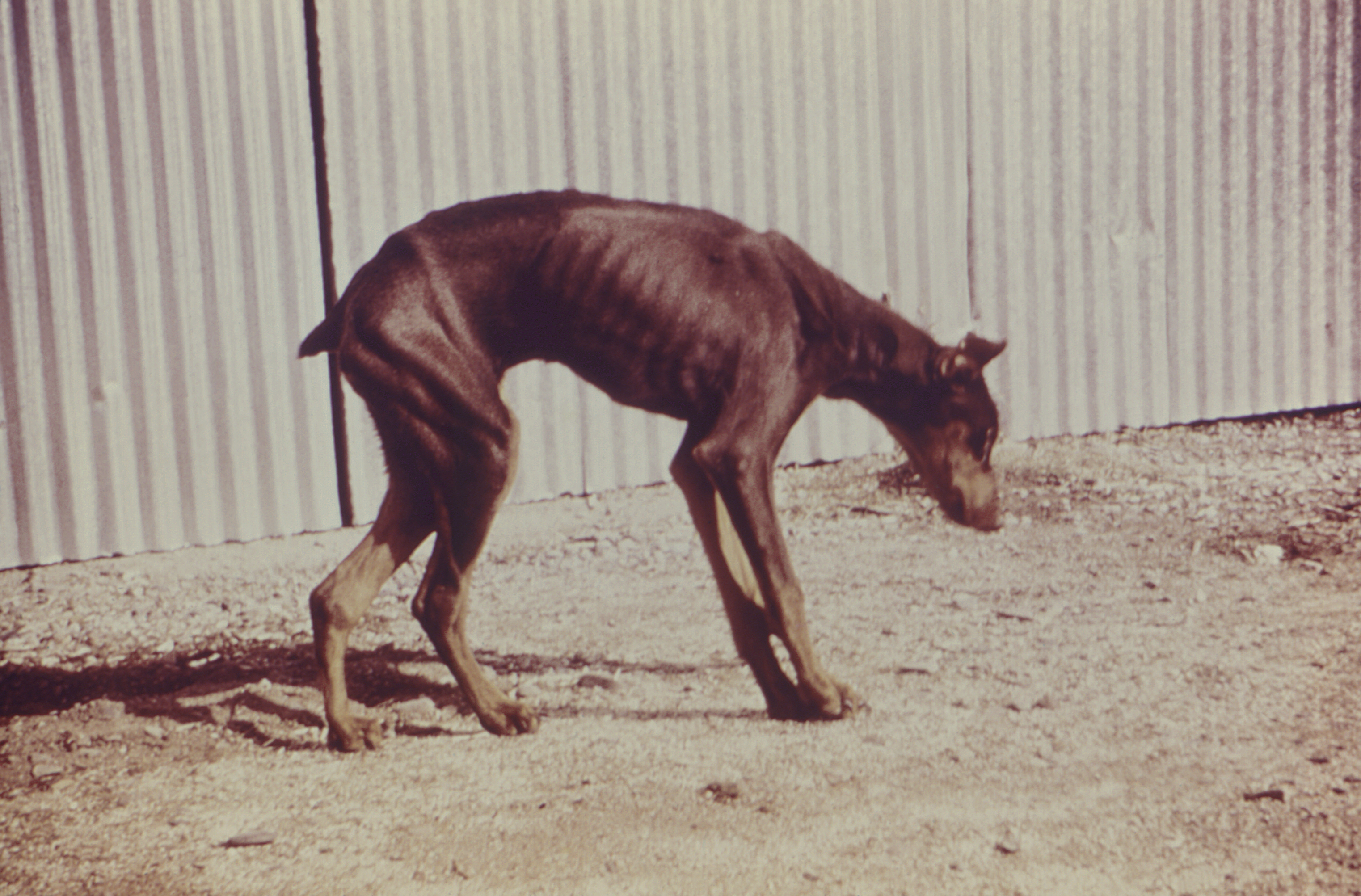 From the PHIL description: "Located in Arizona, this Doberman Pinscher displayed the signs of wasting, lethargy, and disorientation due to a fungal infection known as coccidioidomycosis, which is caused by a fungus from the genus Coccidioides. Note the head-down posture, and trembling gait, as well as the dog’s loss of mass, so much so that its ribs and other skeletal elements were clearly visible."